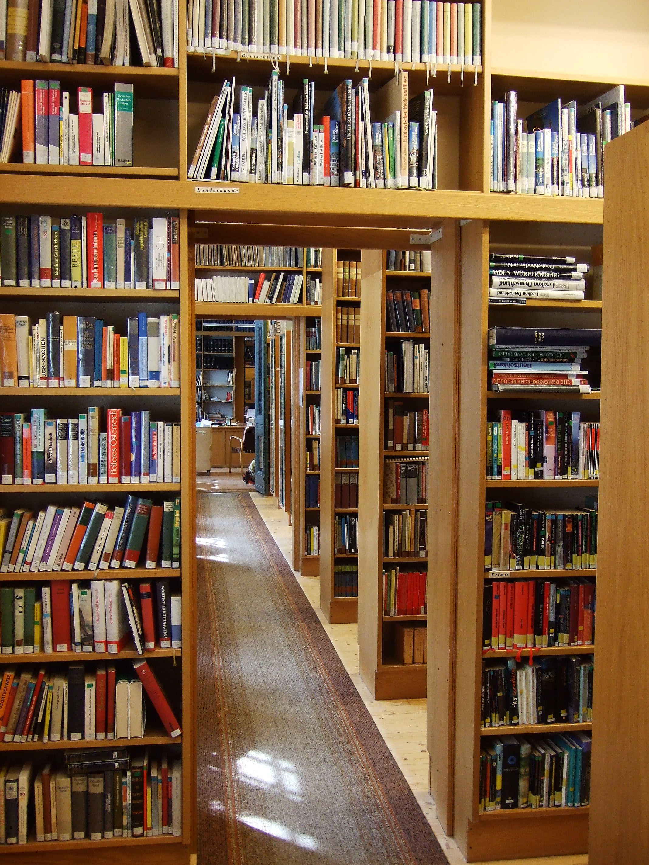 German Library in Helsinki, Finland